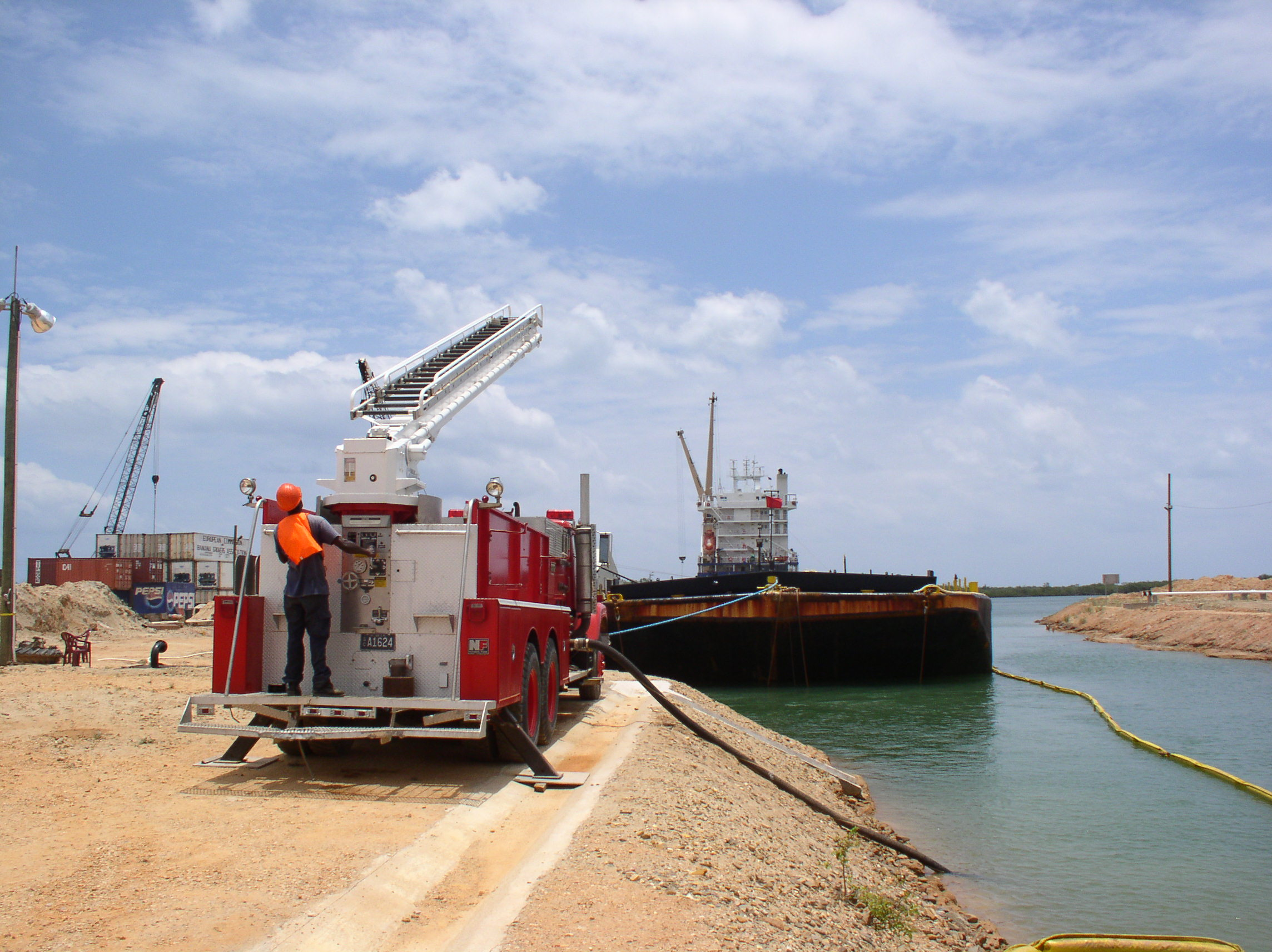 This a picture I took at the oil terminus at Big Creek in Belize. The yellow rope is actually an oil catching device in case of a spill, the fire truck well that should be apparent. In the distance on the left side of the picture are containers full of barrels of orange juice being loaded on a freighter.